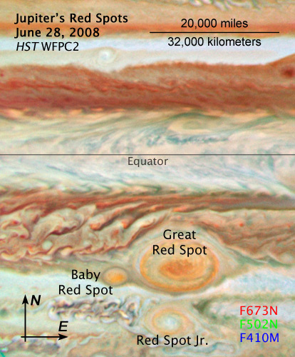 Jupiter's Red Spots June 28, 2008 (Annotated)